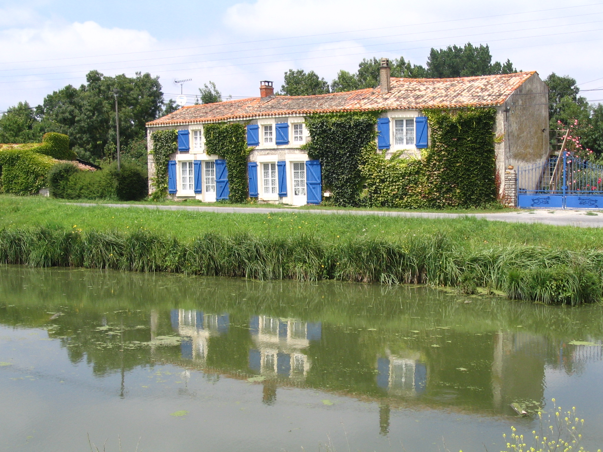 Traditional house in the Marais Poitevin, in Deux-Sèvres, France.